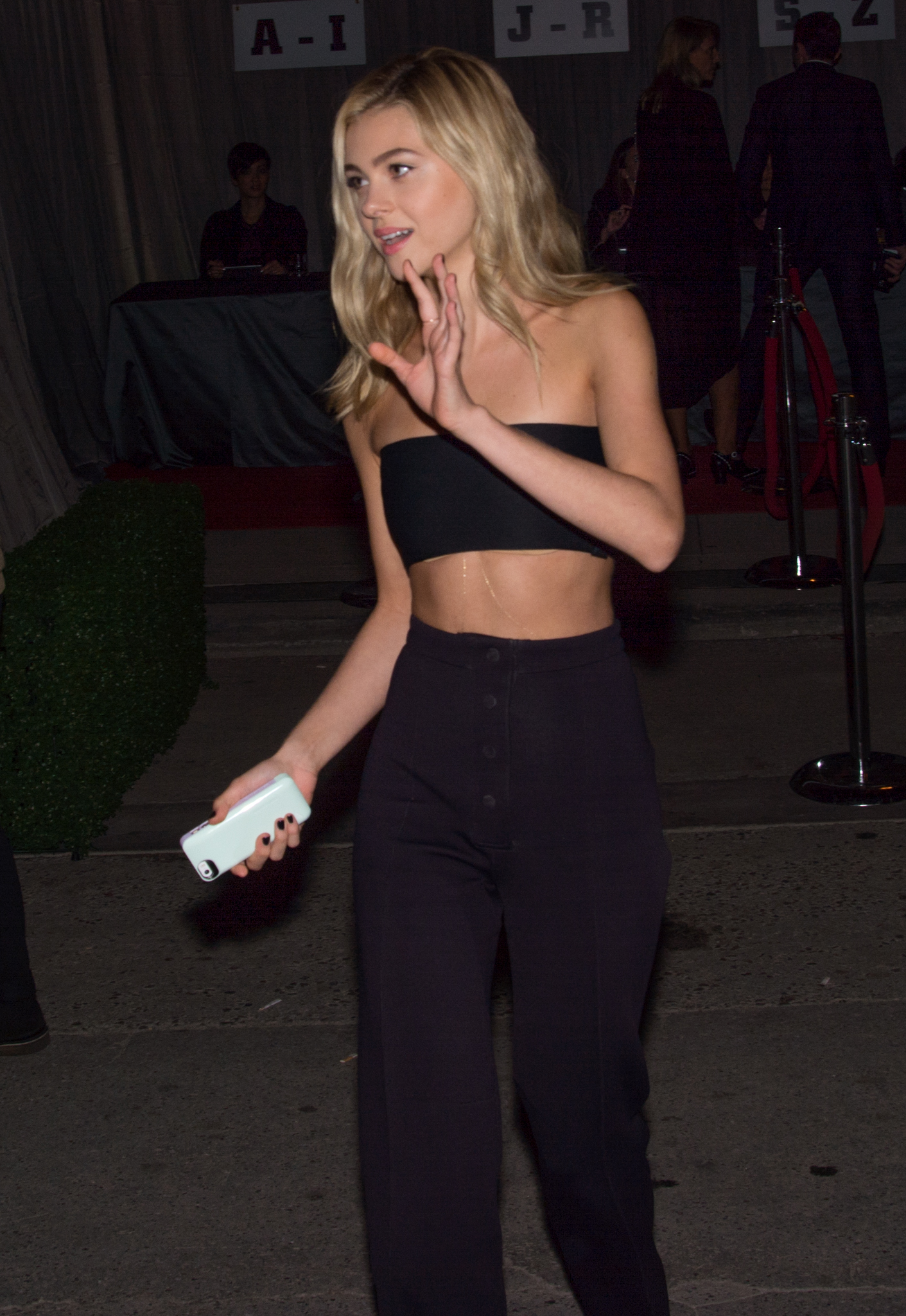 Actress Nicola Peltz arriving for the Hollywood Foreign Press Association & InStyle's 2014 TIFF Celebration